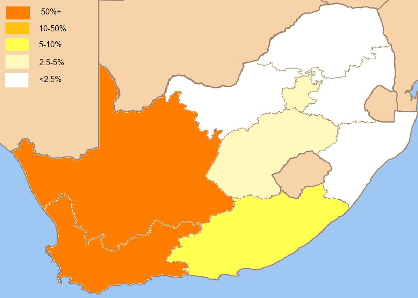 Population of Coloured people in South Africa by province